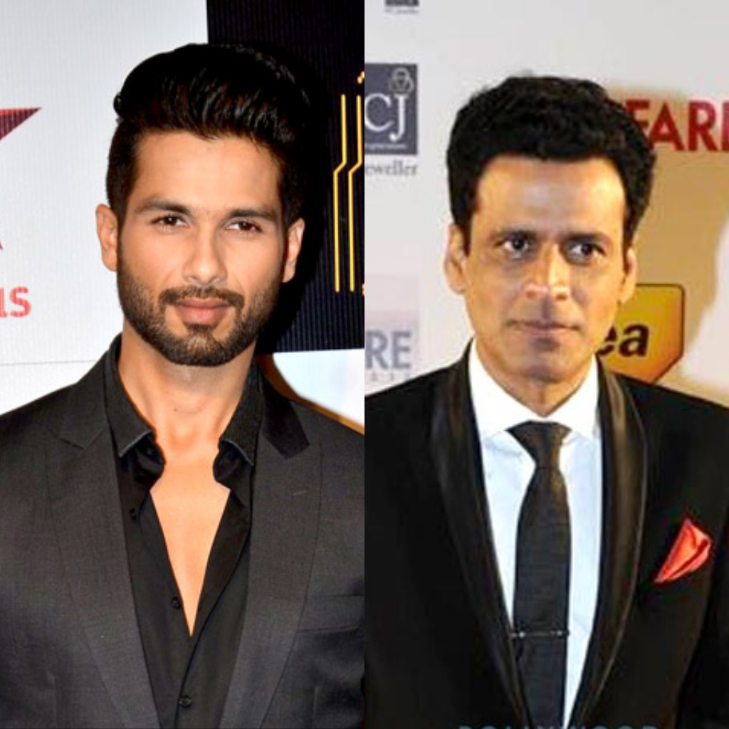 Indian actors Shahid Kapoor and Manoj Bajpayee (montage to illustrate their "tie" win of Filmfare Award)